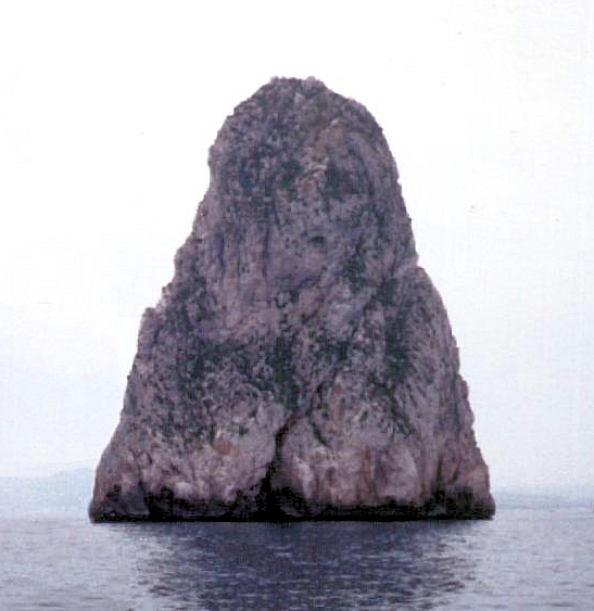 picture of island